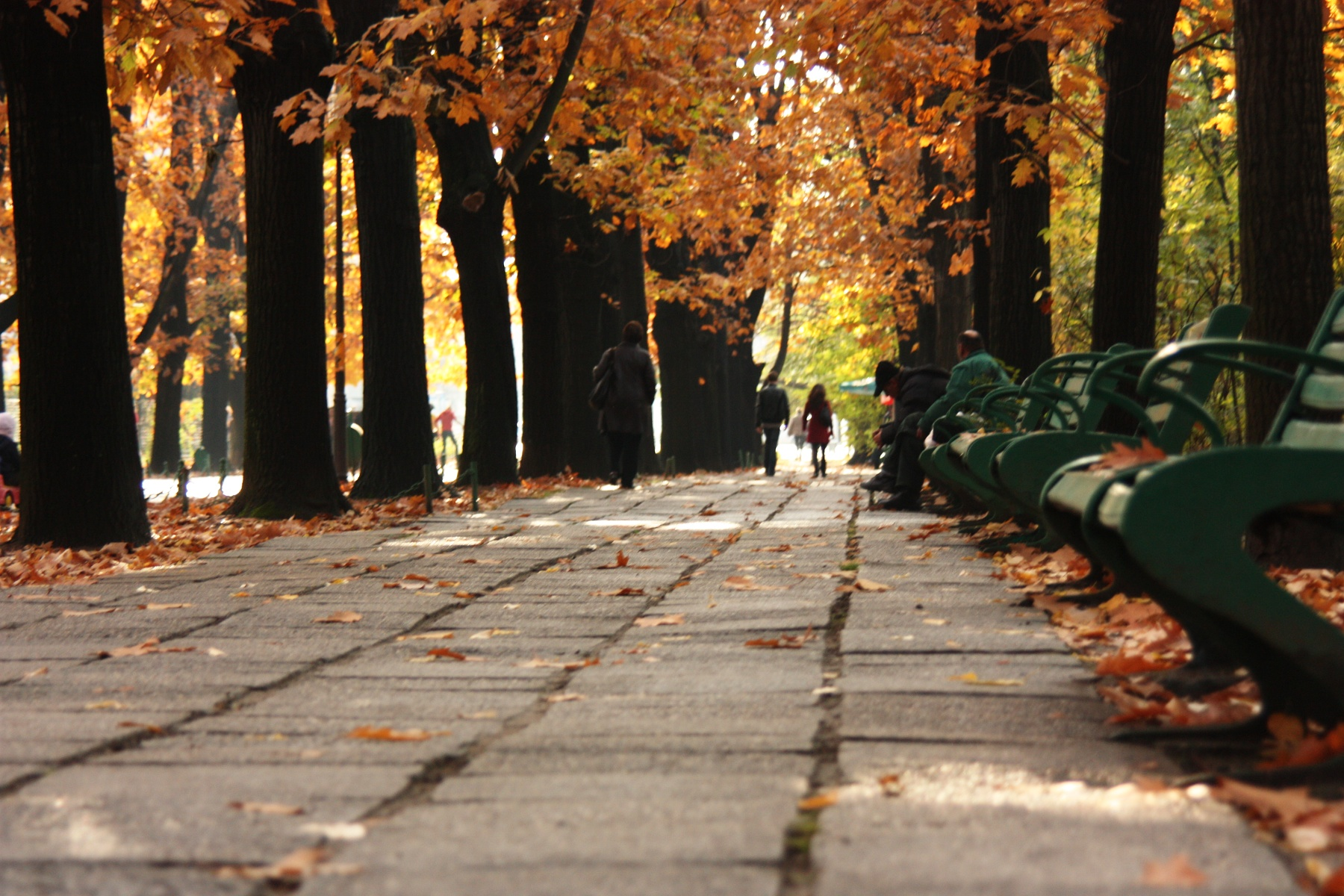 Alley in Herăstrău Park of Bucharest